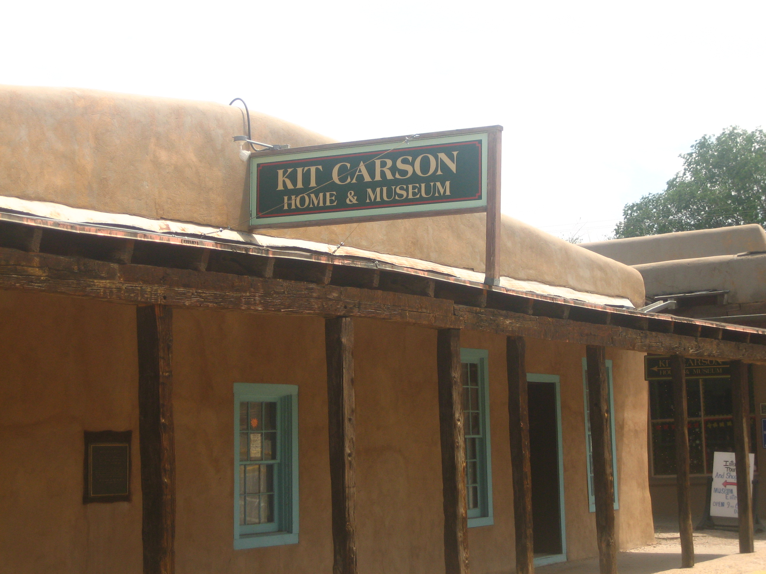 I took photo in July 2008.